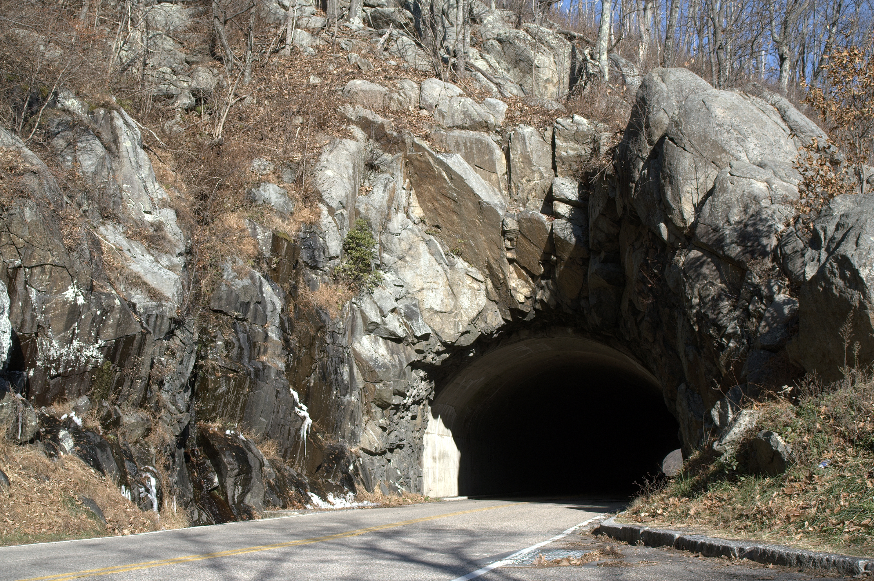 Photo of southern entrance of Mary's Rock Tunnel in Shenandoah National Park.